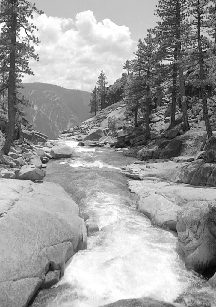 Yosemite Creek — just upstream of the Upper Fall of Yosemite Falls, in Yosemite National Park.